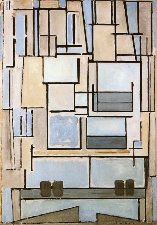 Piet Mondrian - Composition No.9, Blue Façade (1913/14)